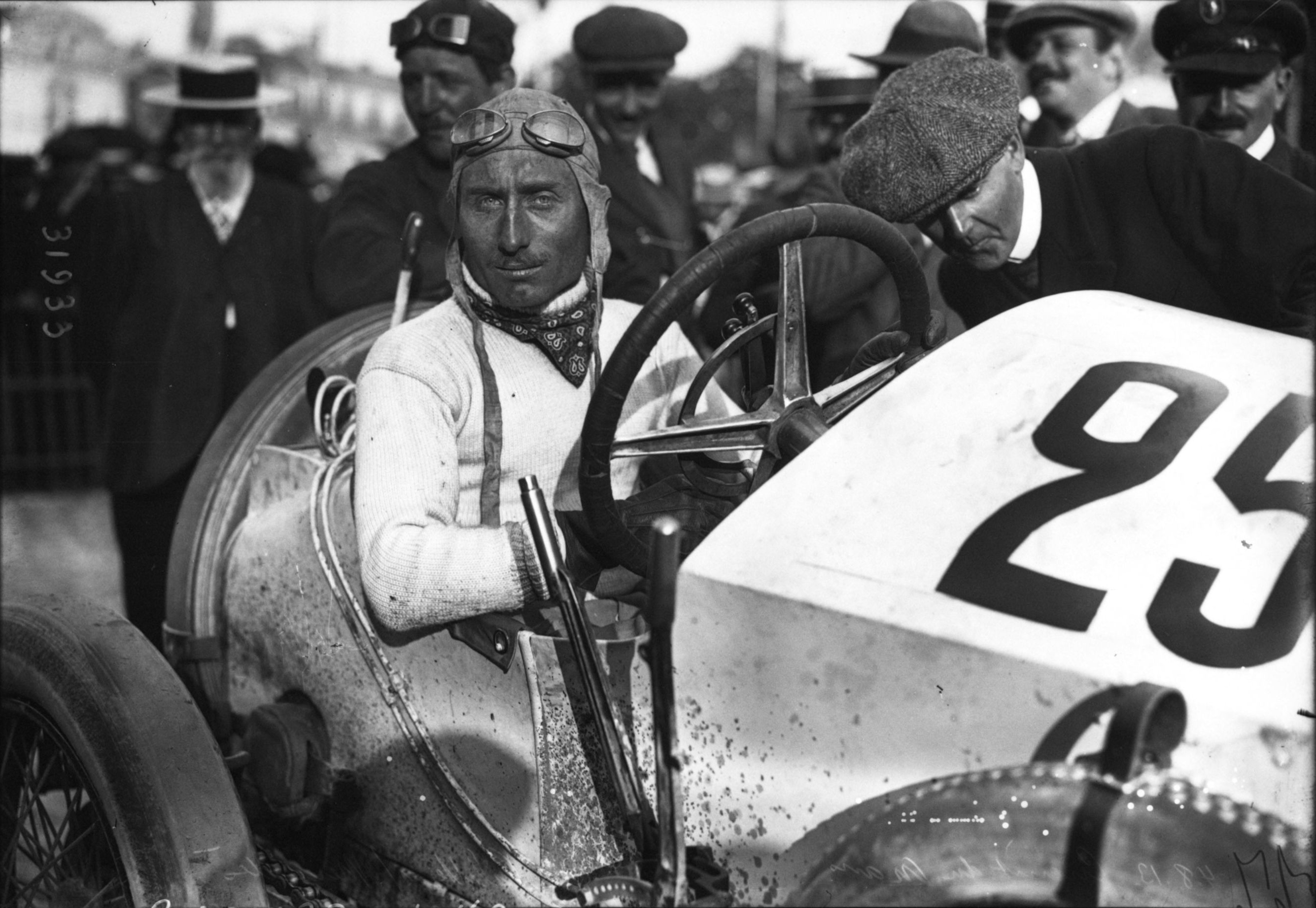 Théodore Pilette at the 1913 Grand Prix de France at Le Mans.